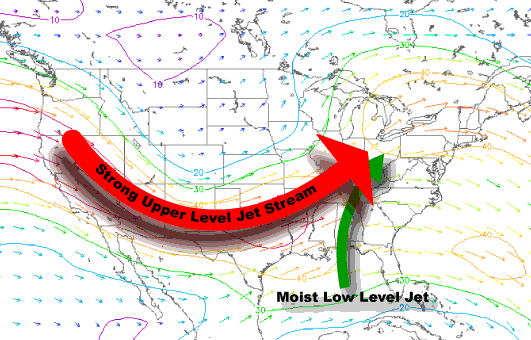 Upper-air patterns during the Super Outbreak of April 3, 1974